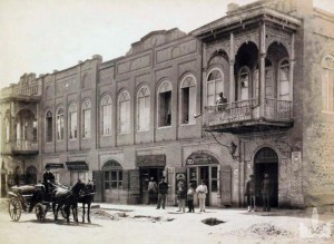 Hotel London in Yerevan